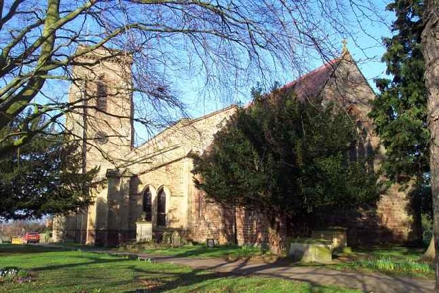 St George's parish church, Pontesbury, Shropshire, seen from the east